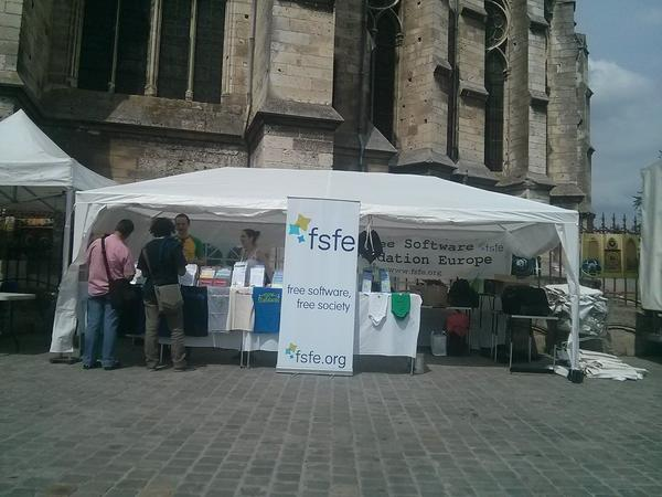 RMLL 2015 Beauvais